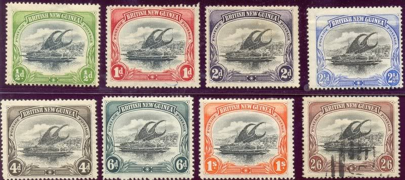 Stamps of British New Guinea, Lakatoi issue, 1901.